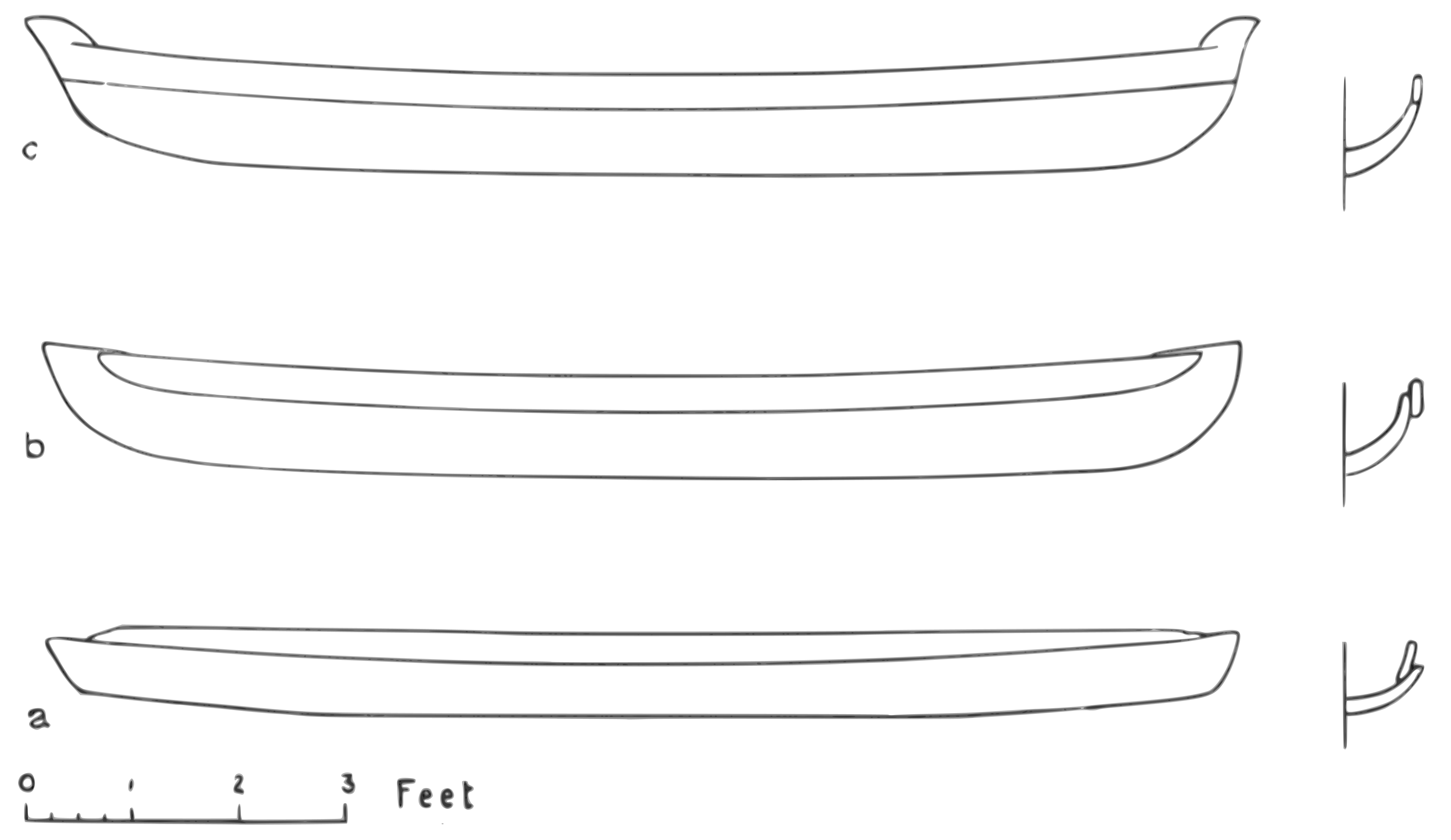 Profiles and half-sections at the mid-point of the three forms of jongkong found in the Riau-Lingga area. This vector drawing is a reproduction of a sketch by C. A. Gibson-Hill.